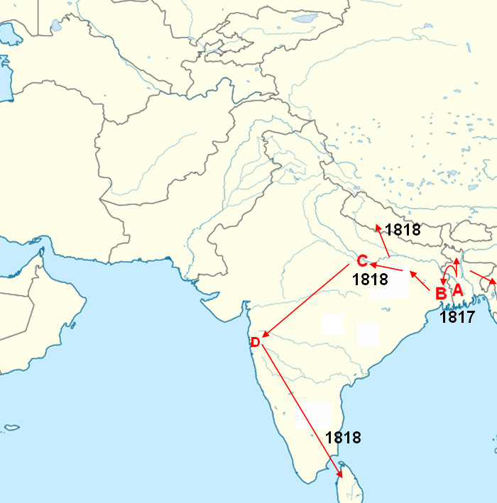 Cholera dissemination across the Indian subcontinent 1817-1818. A - Jessore B - Kolkata C - Allahabad D - Mumbai